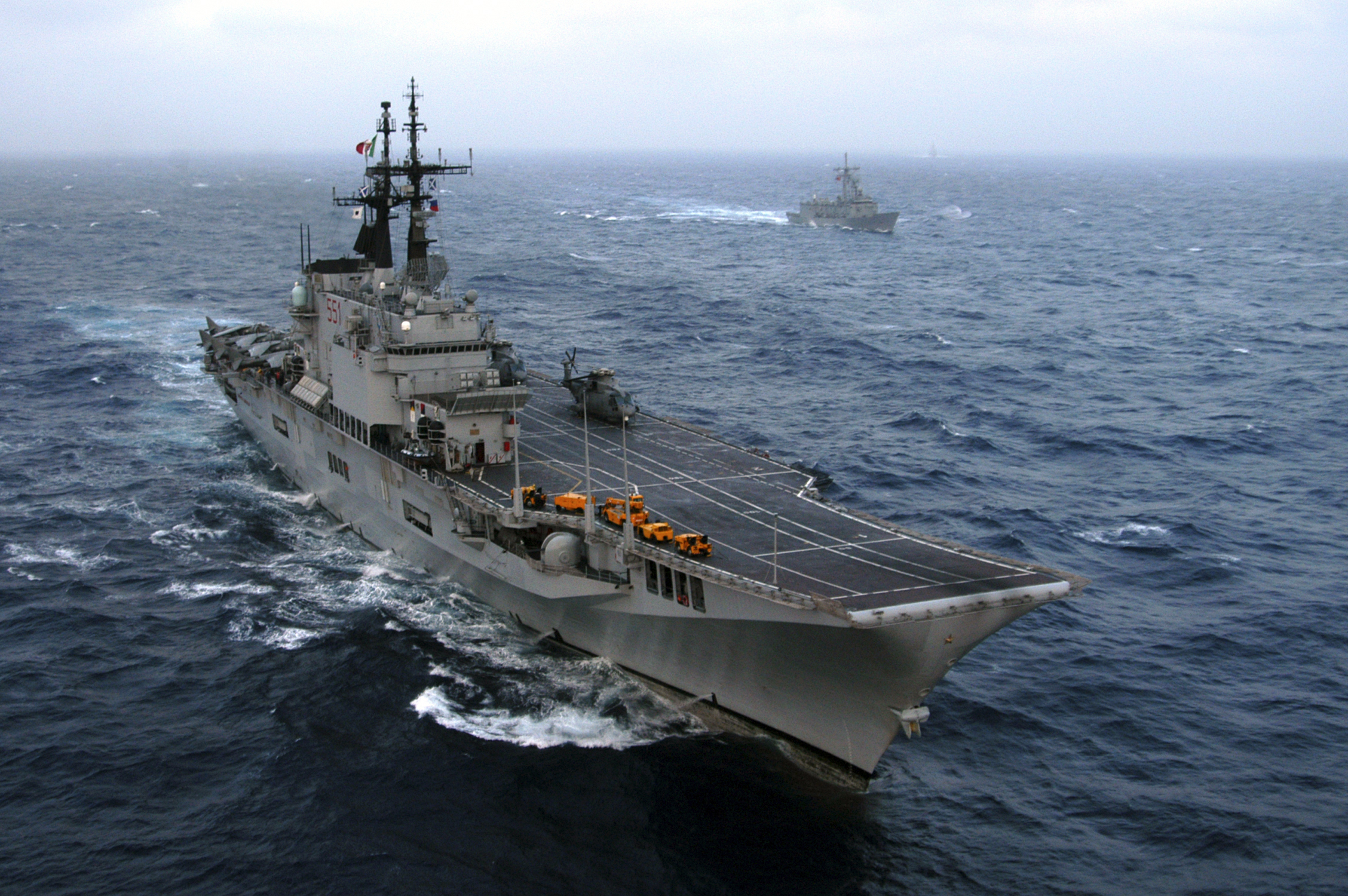 ID 040712-N-0119G-053 - The Italian aircraft carrier ITS Giuseppe Garibaldi (C 551) and the Turkish frigate TCG Gediz (F 495) steam through the Atlantic Ocean while participating in Majestic Eagle 2004. Majestic Eagle is a multinational exercise being conducted off the coast of Morocco. The exercise demonstrates the combined force capabilities and quick response times of the participating naval, air, undersea and surface warfare groups. Countries involved in the NATO led exercise include the United Kingdom, Morocco, France, Italy, Portugal, Spain, and Turkey. Truman's participation in Majestic Eagle is part of her scheduled deployment supporting the Navy's new fleet response plan (FRP) Summer Pulse 2004, the simultaneous deployment of seven carrier strike groups (CSGs), demonstrating the ability of the Navy to provide credible combat across the globe, in five theaters with other U.S., allied, and coalition military forces.